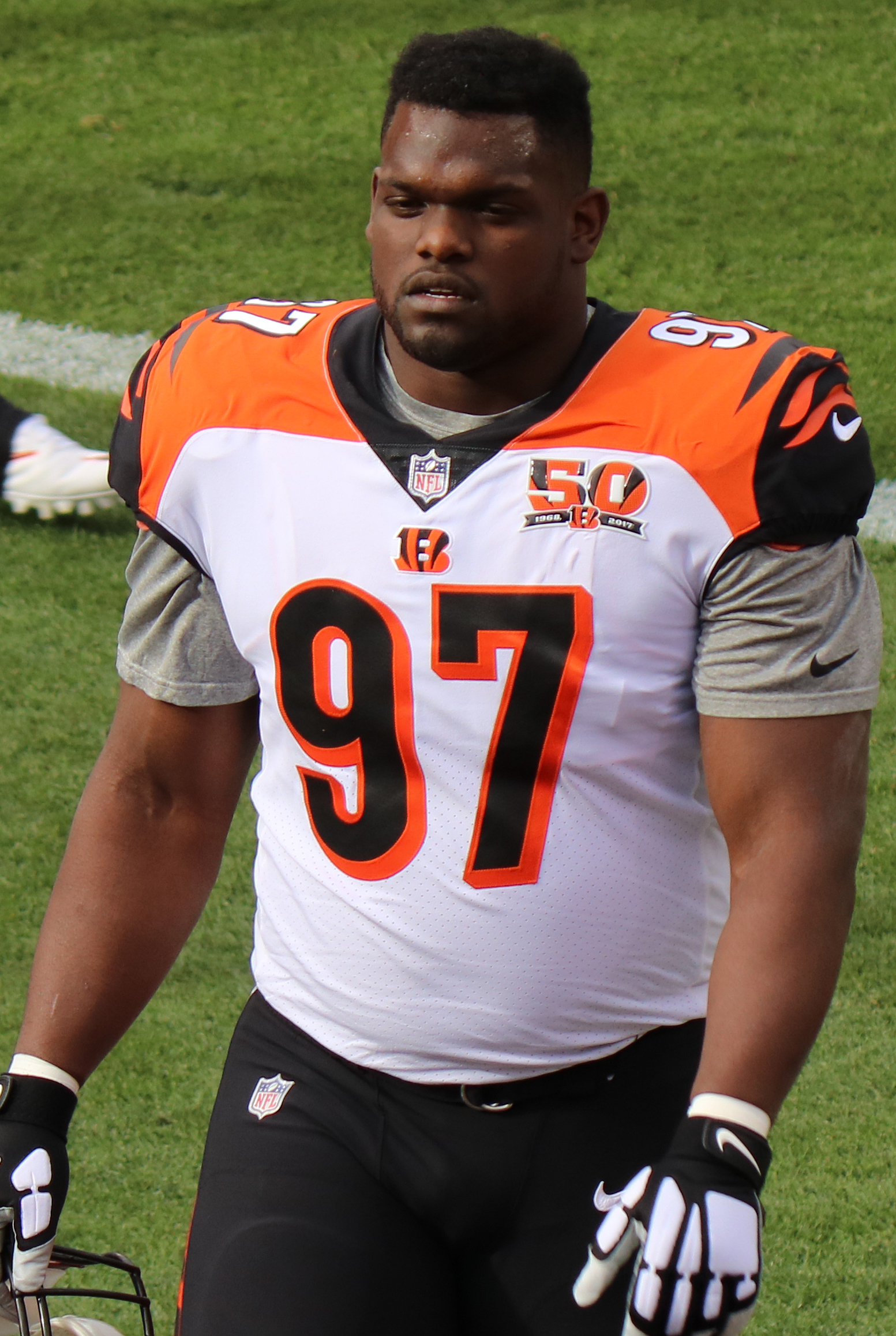 Geno Atkins, a National Football League player.